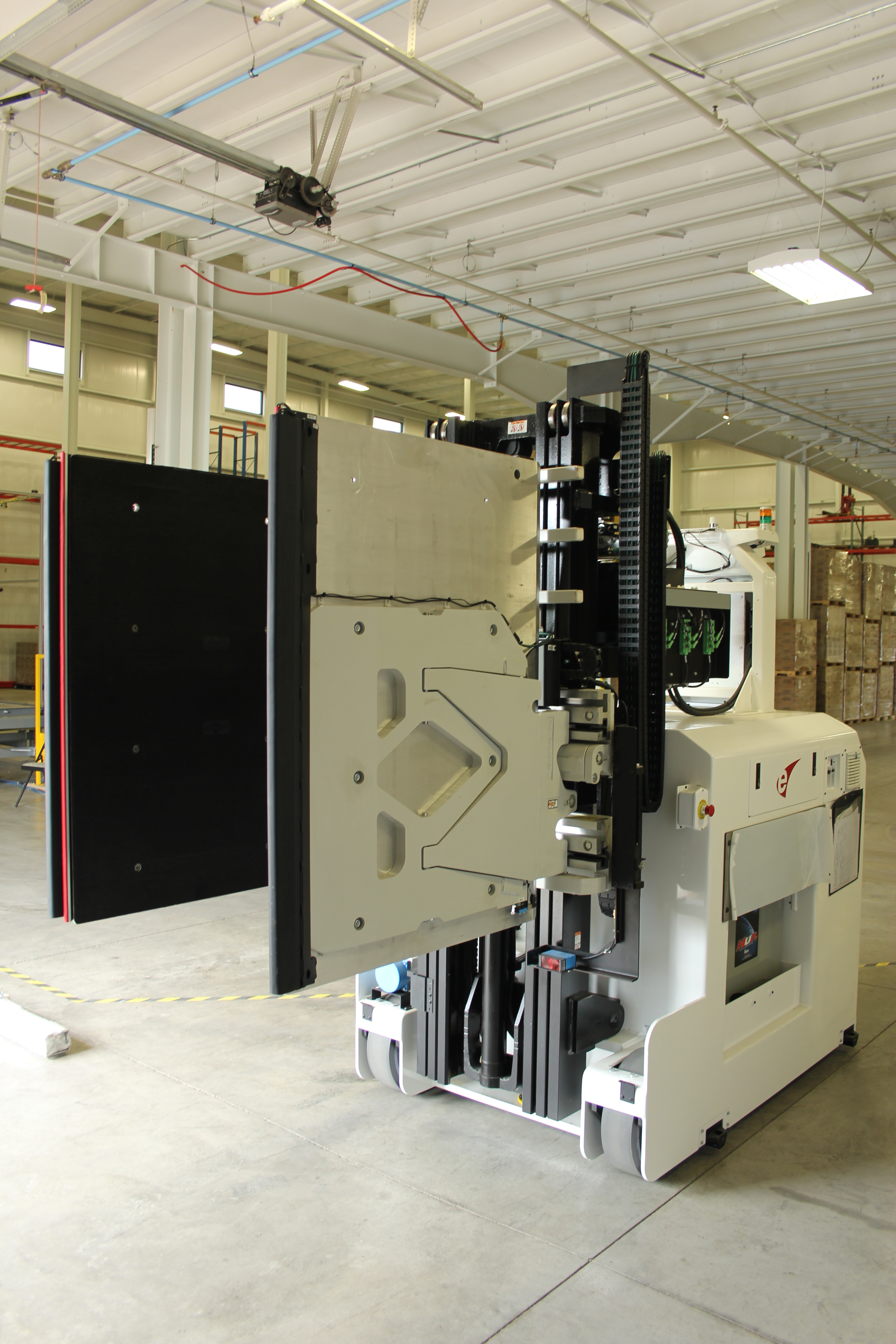 Side Clamp AGVs can pick unpalletized loads.